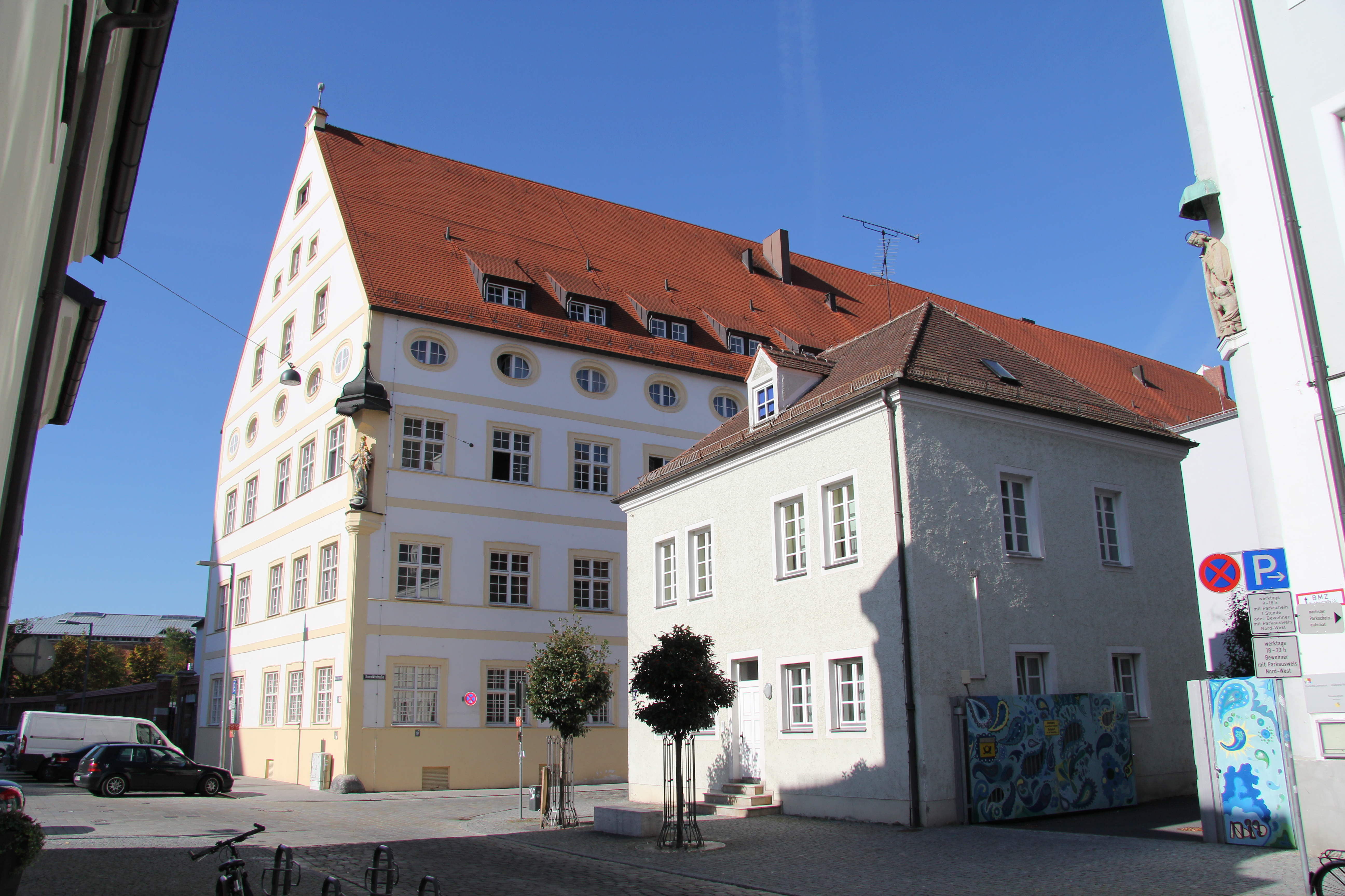 Ingolstadt, Canisiuskonvikt, east side Konviktstraße, smaller building in front is the Beichtvaterhaus